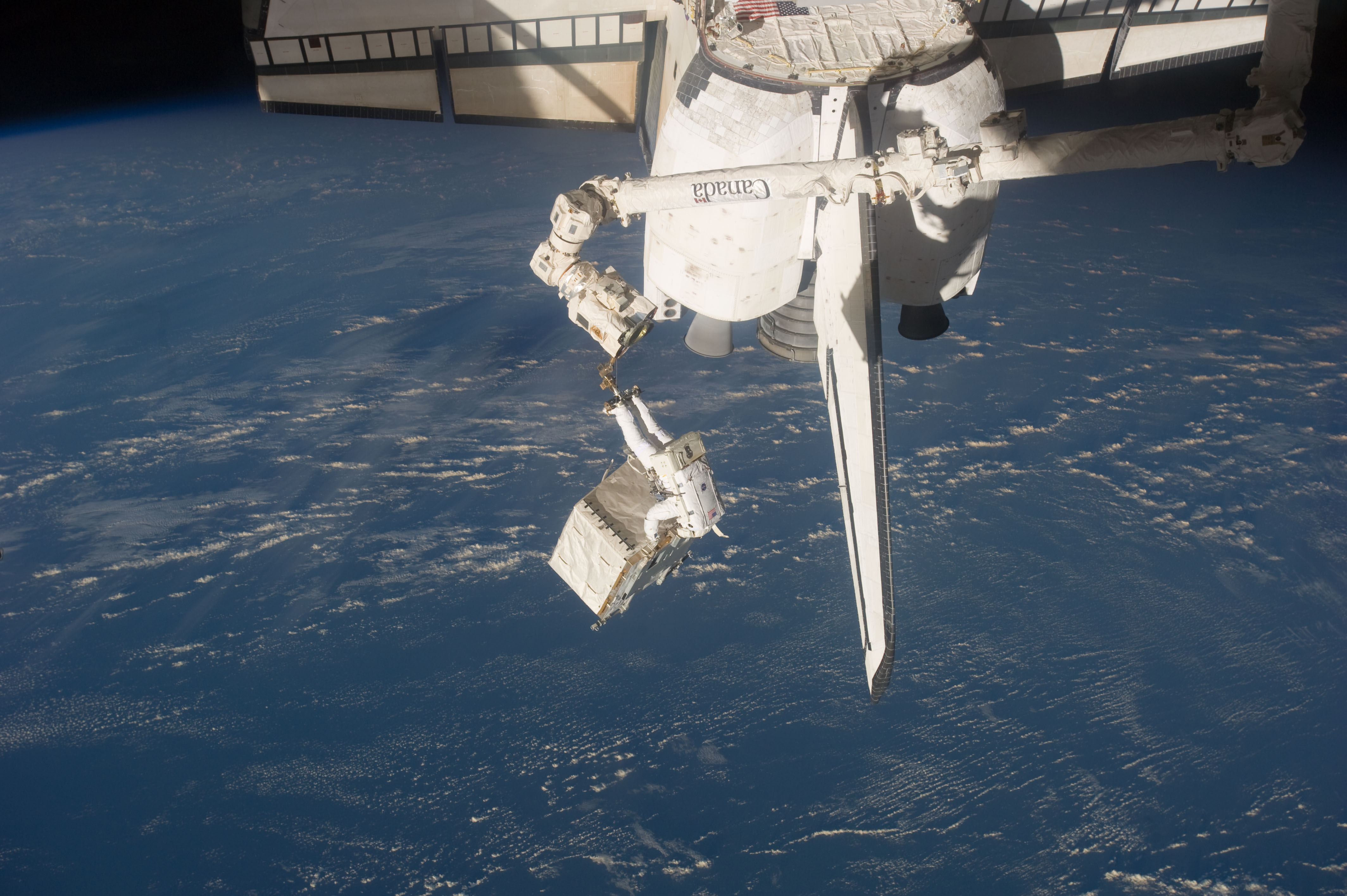 With his feet secured on a restraint on the space station remote manipulator system's robotic arm or Canadarm2, NASA astronaut Ron Garan, Expedition 28 flight engineer, carries the pump module, which was the focus of one of the primary chores accomplished on a six and a half hour spacewalk on July 12. NASA astronaut Mike Fossum, also a station flight engineer, who shared the spacewalk with Garan, is out of frame.